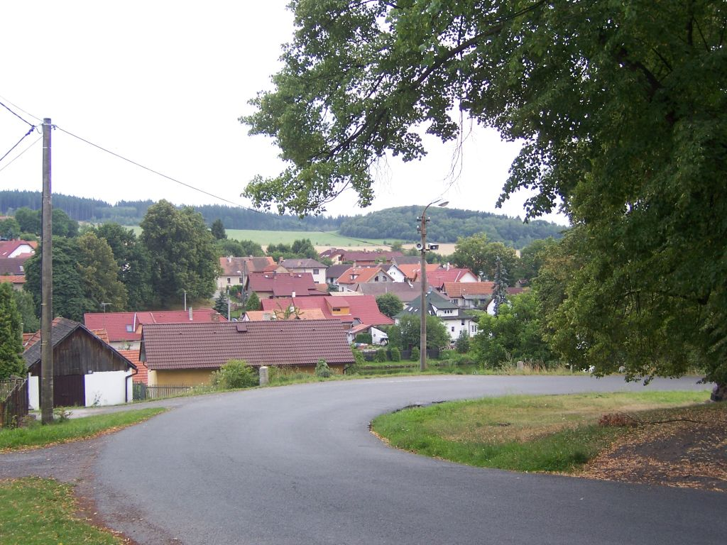 Zvánovice